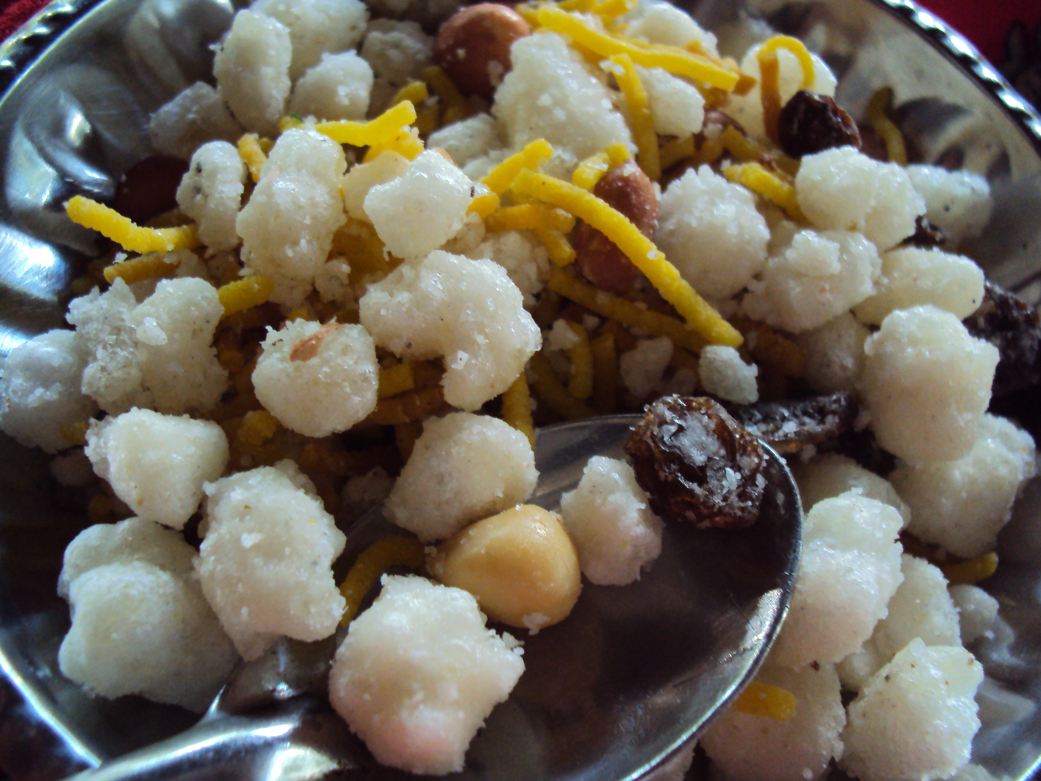 Bombay mix from Kerala, India